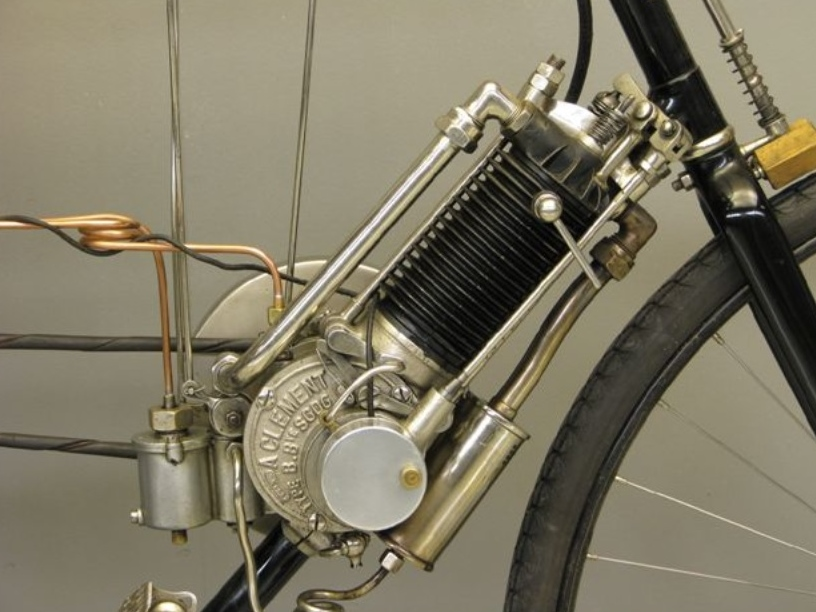 1902 Clément 143 cc Automatic Inlet Valve engine